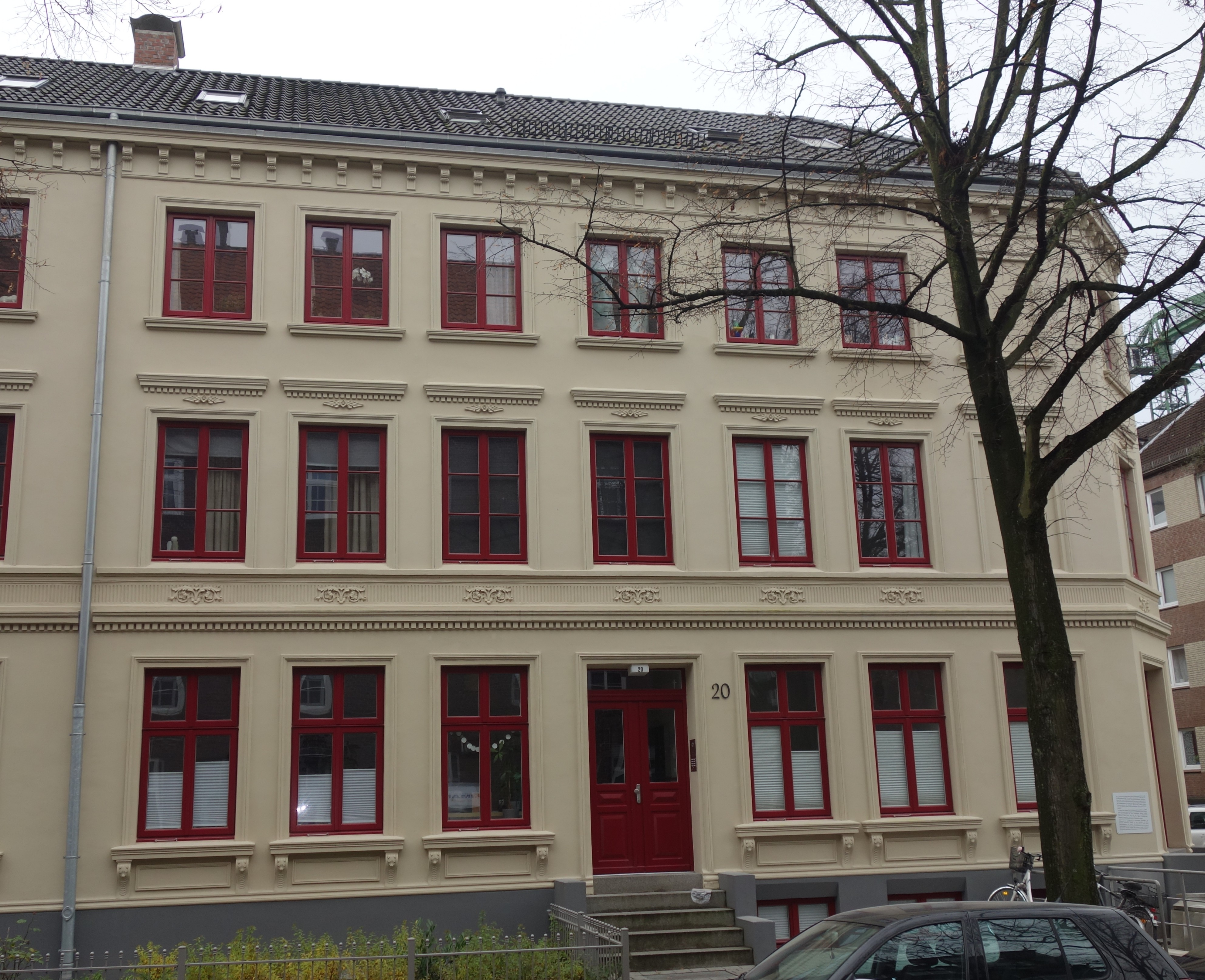 A monument of cultural heritage in Hamburg